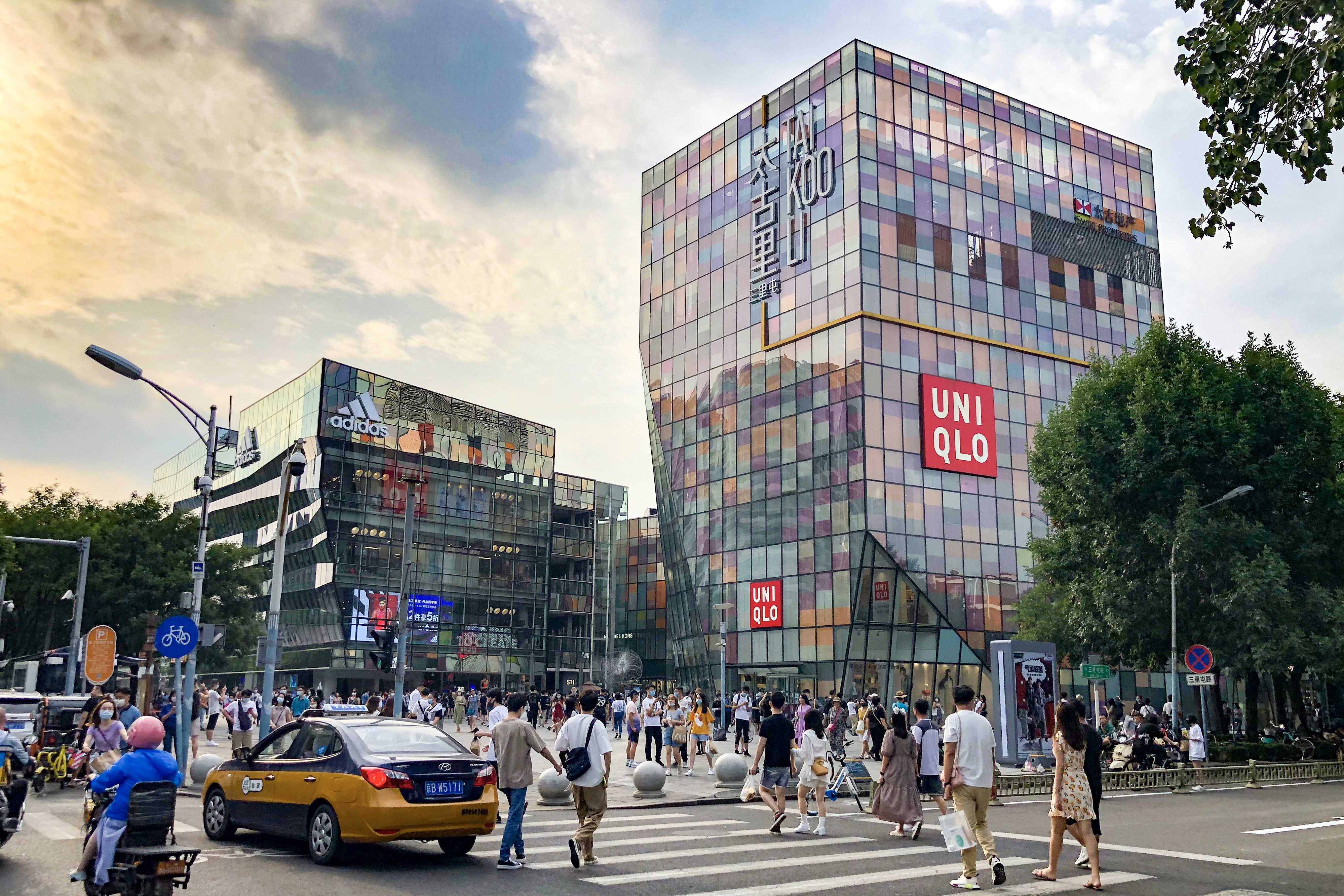 After a direct ride from Sanyuanqiao (inner).